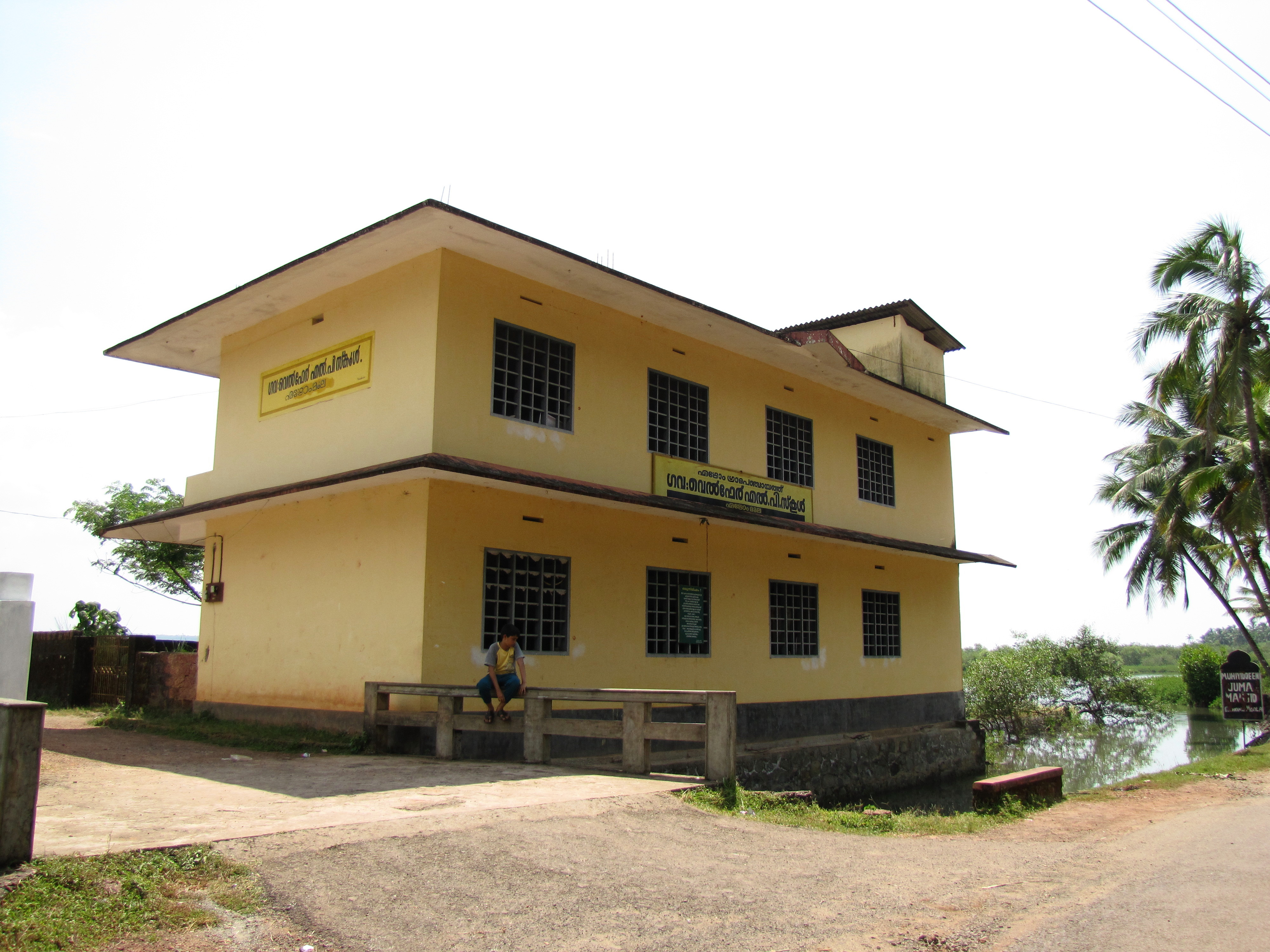 Government Welfare LP School Ezhome Moola, Pazangadi in Kannur